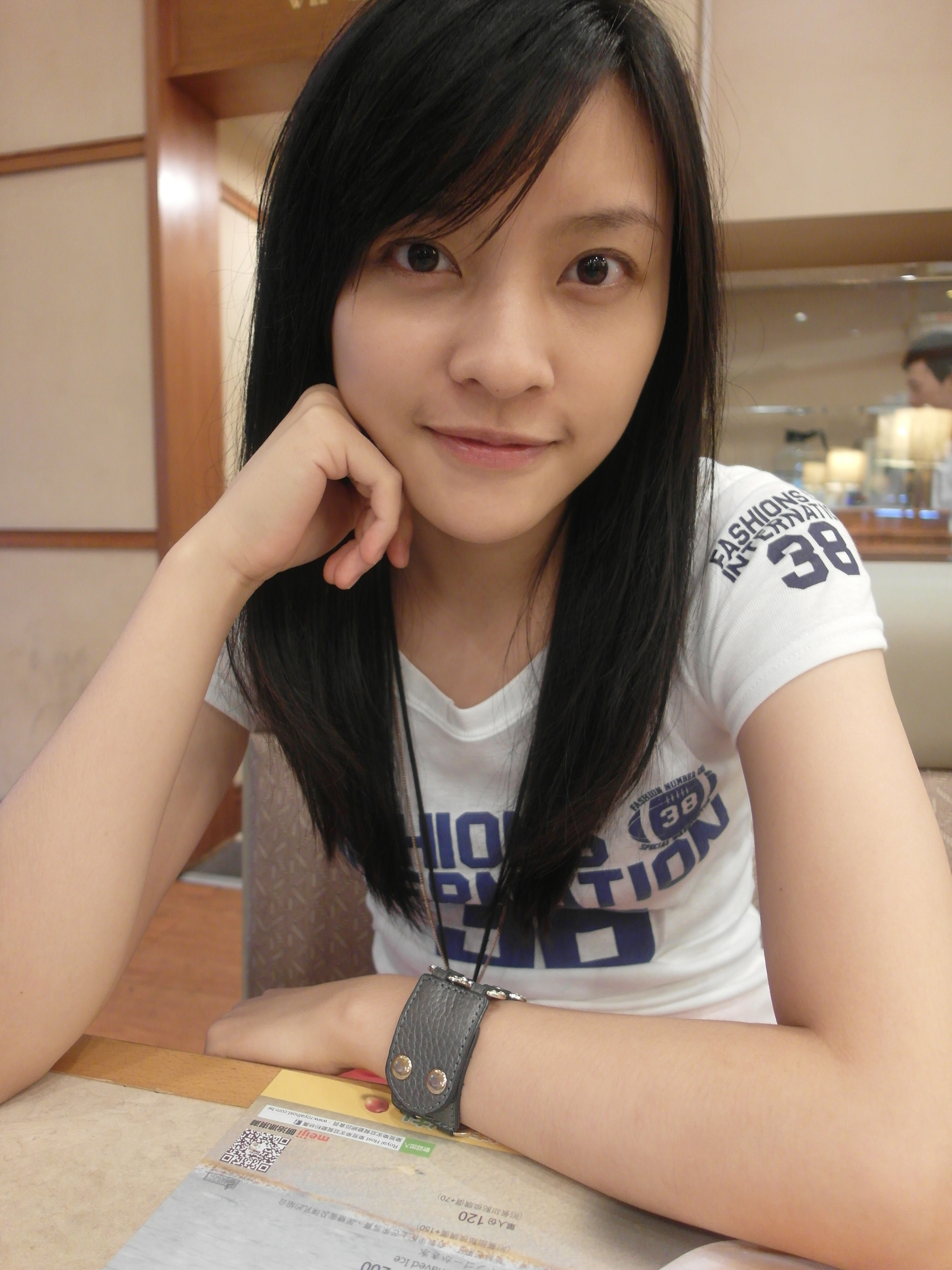 Sharon Kao